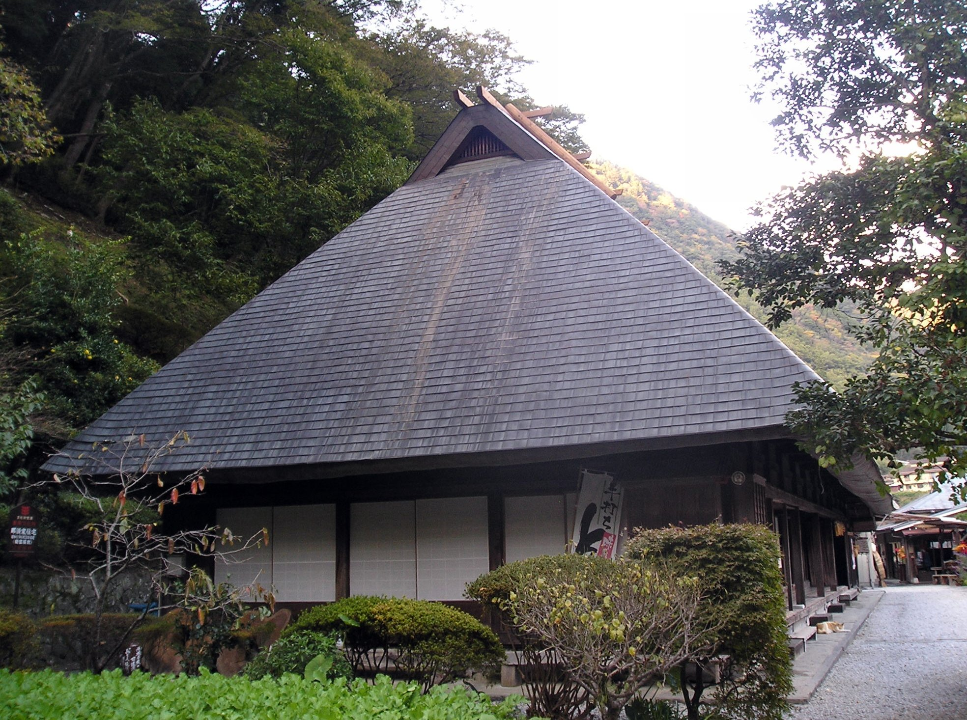 Tsurutomi Traditional House, Shiiba Village, Miyazaki, Japan